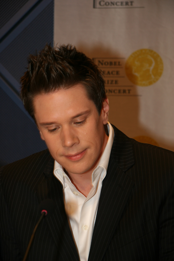 Nobel Peace Prize Concert 2008, Il Divo, David Miller